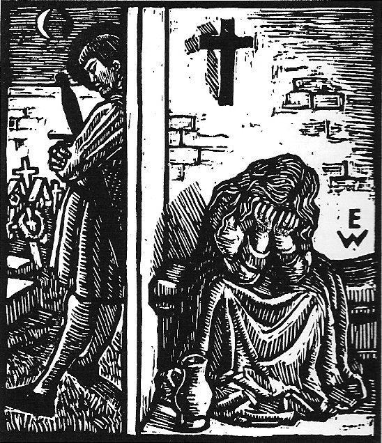 Dietegen guarding Küngolt